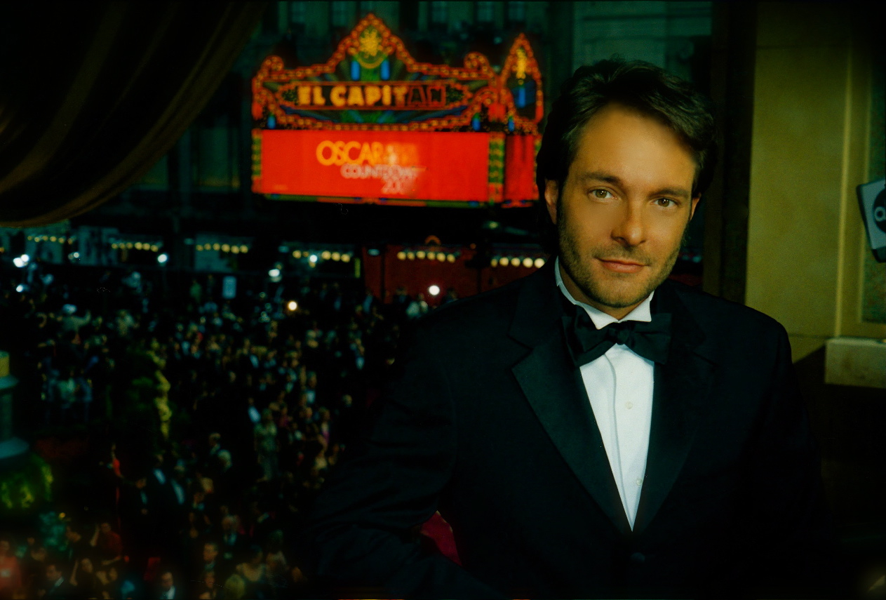 DAVID GIAMMARCO attends the Academy Awards Ceremony at the Kodak Theater, Los Angeles, California.